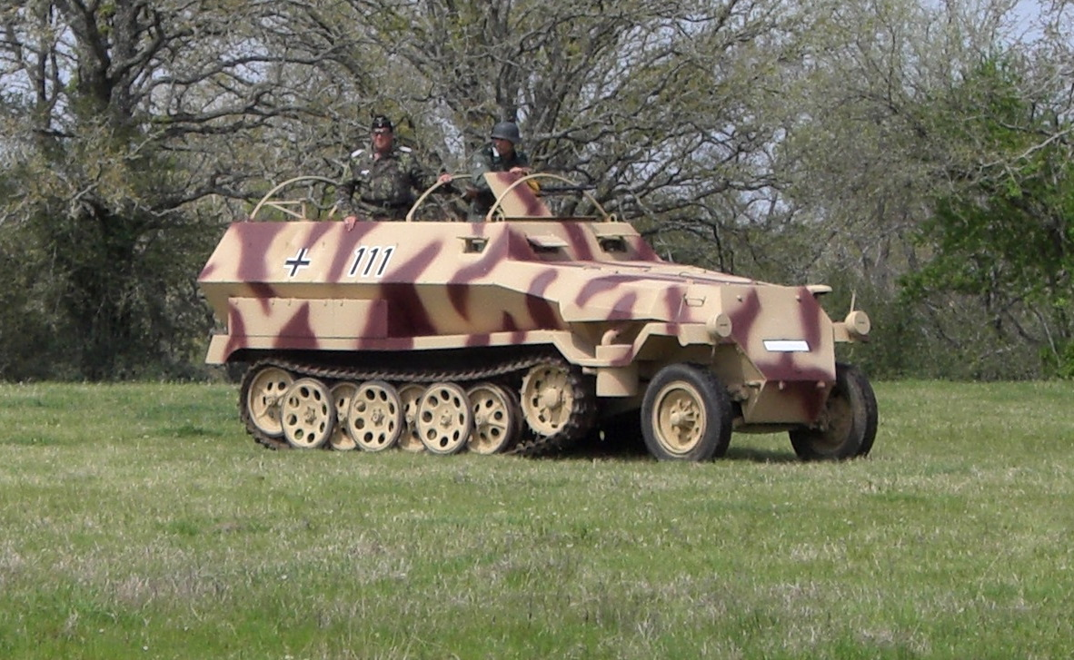 This is a privately-owned german halftrack, in perfect operating condition. I took this photograph at the Museum of the American GI's 2007 open house/reenactment.